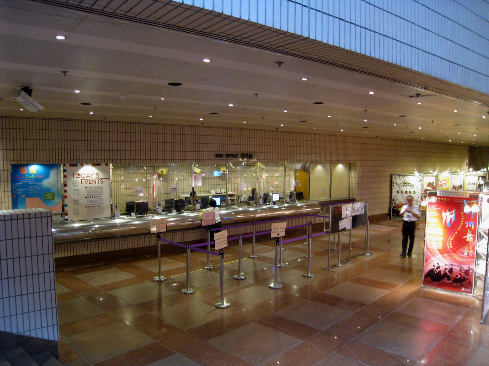 Hong Kong Cultural Centre Box Office 香港文化中心售票處